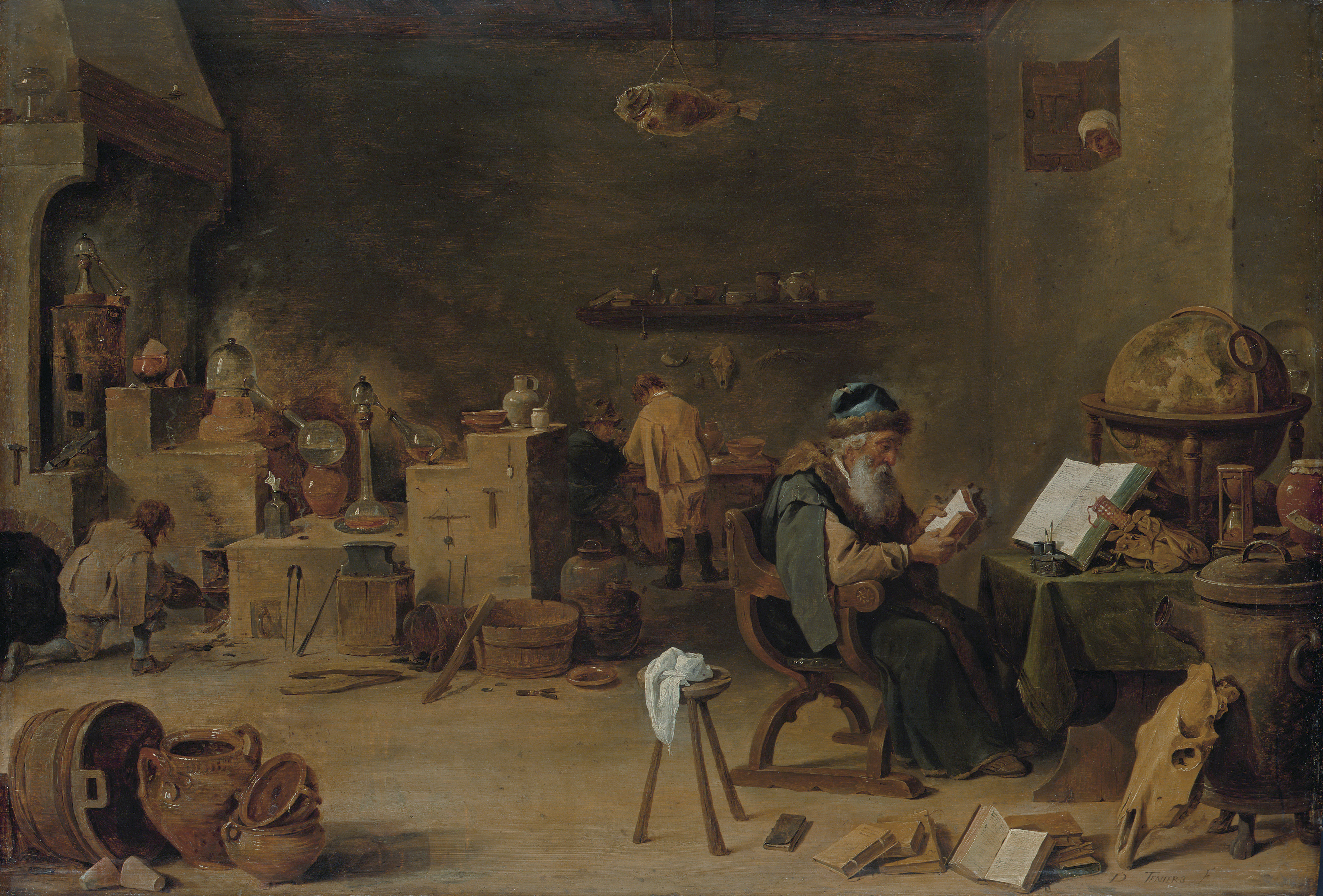 The alchemist oil on panel 50,7 x 71,2 cm signed b.r.: D Teniers F circa 1643-1645